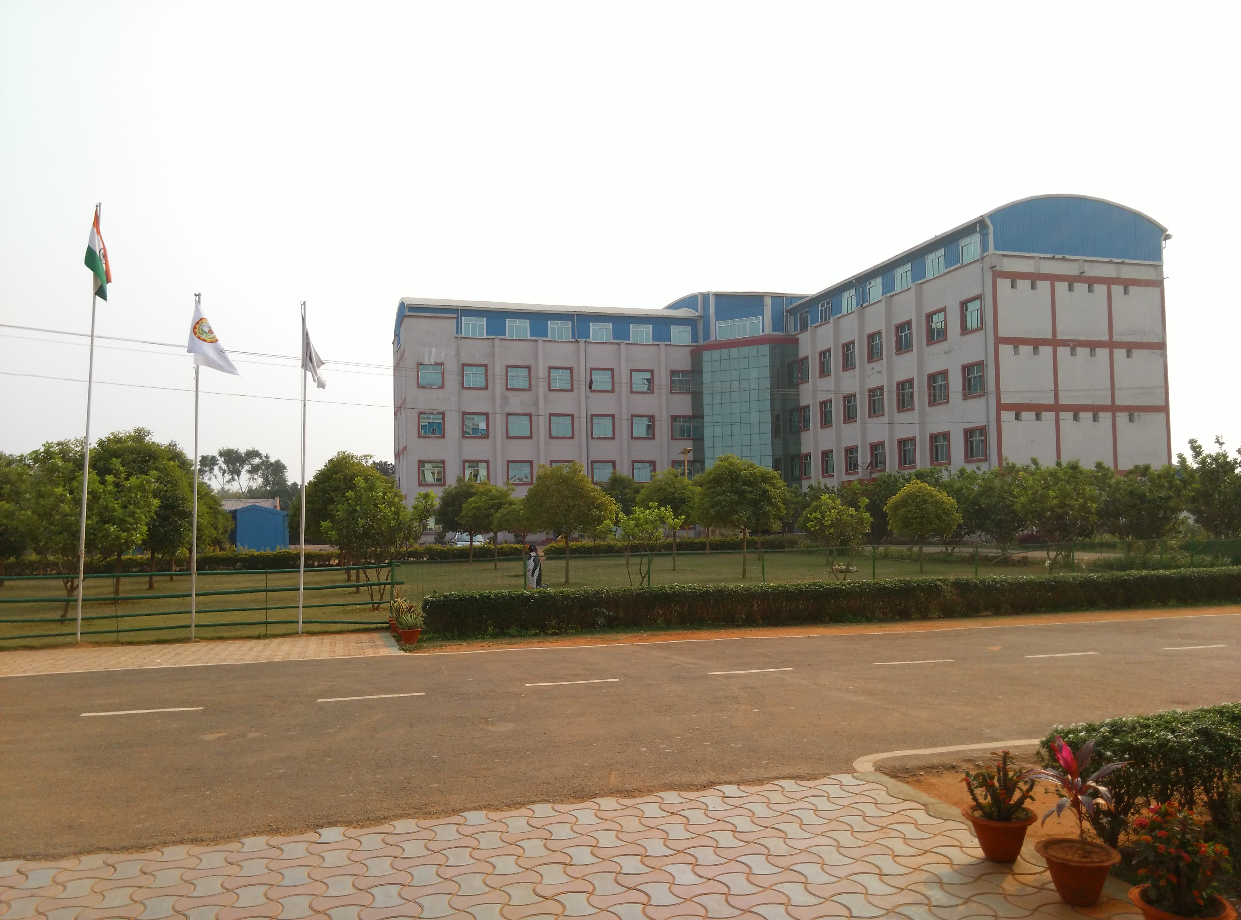 The Management Block of Centurion University of Technology and Management's Bhubaneswar Campus.Captured from in front of the Engineering Building.